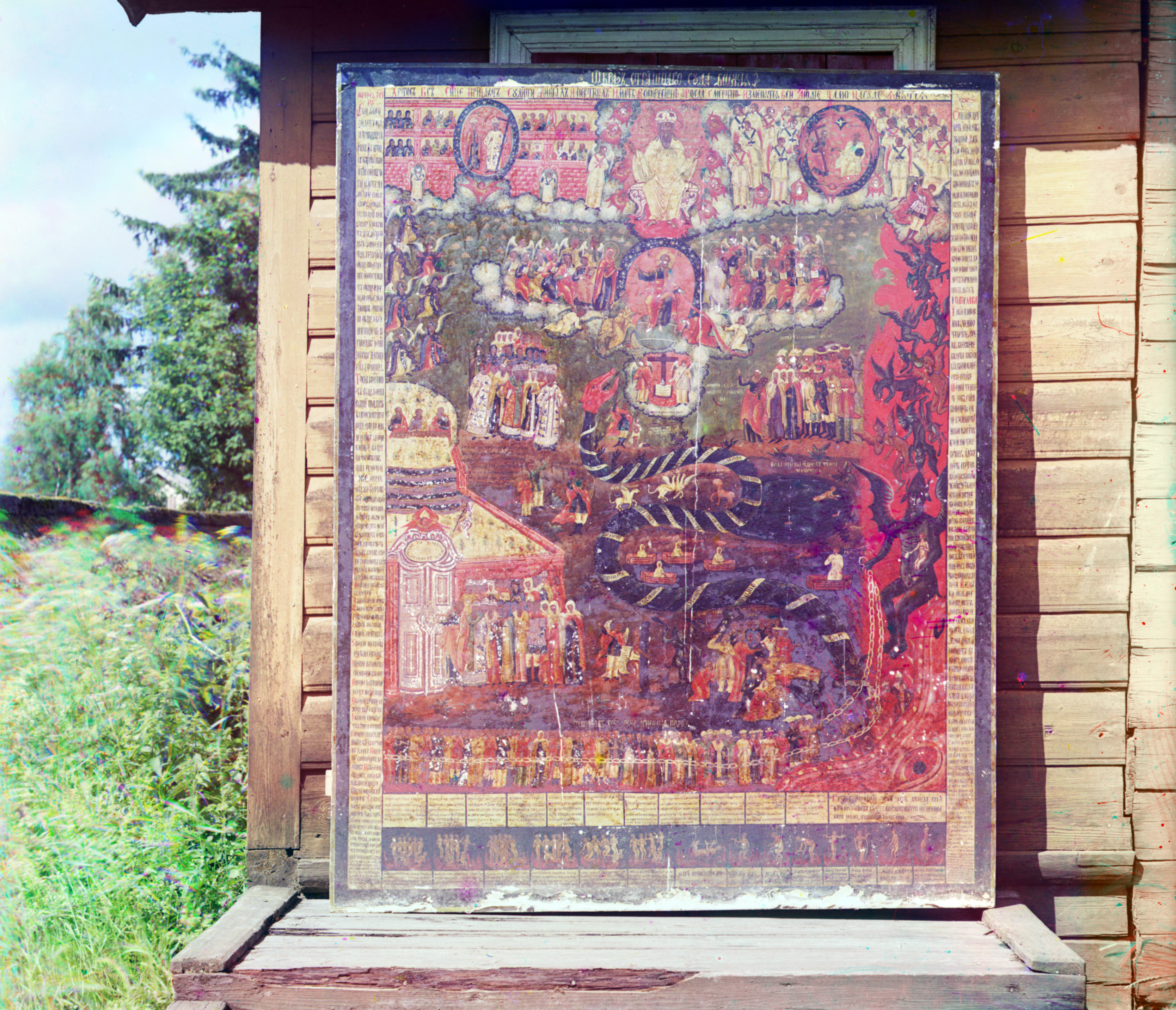 Icon of the Last Judgement. Village of Pidma. (Russian Empire)